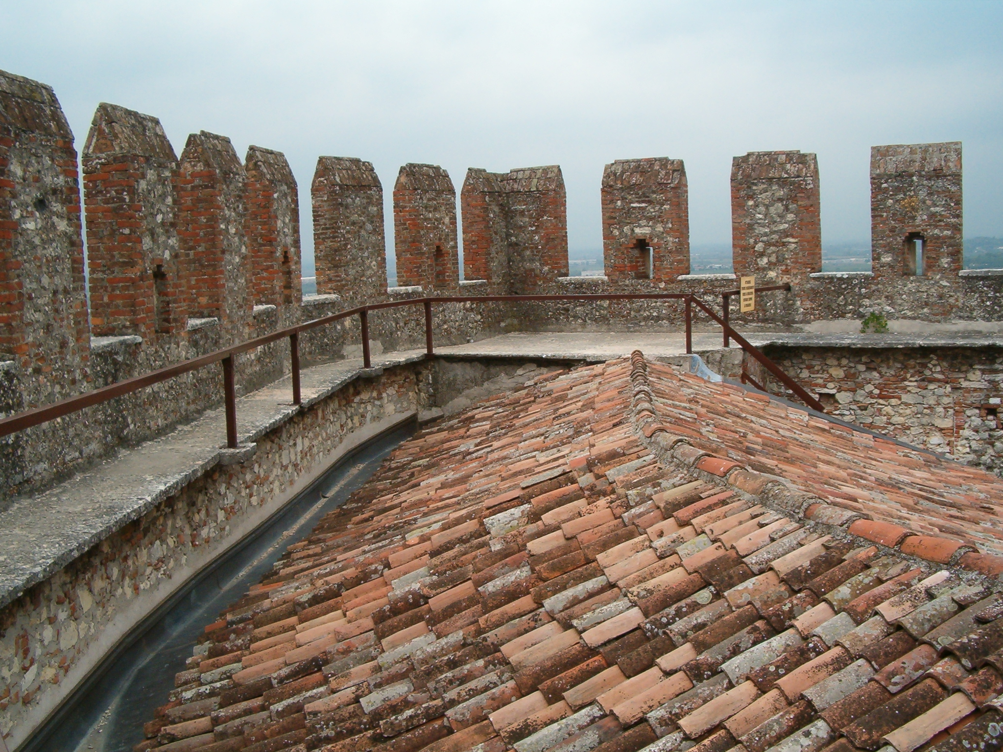 Castle of Soave (Province of Verona.